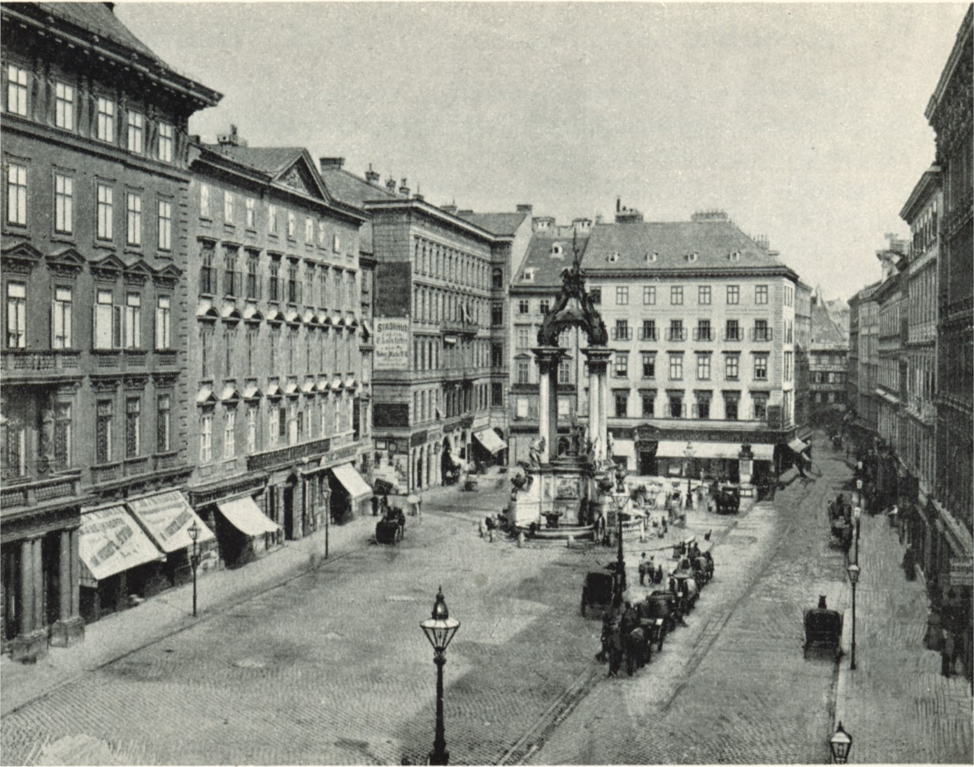 Hoher Markt in Vienna